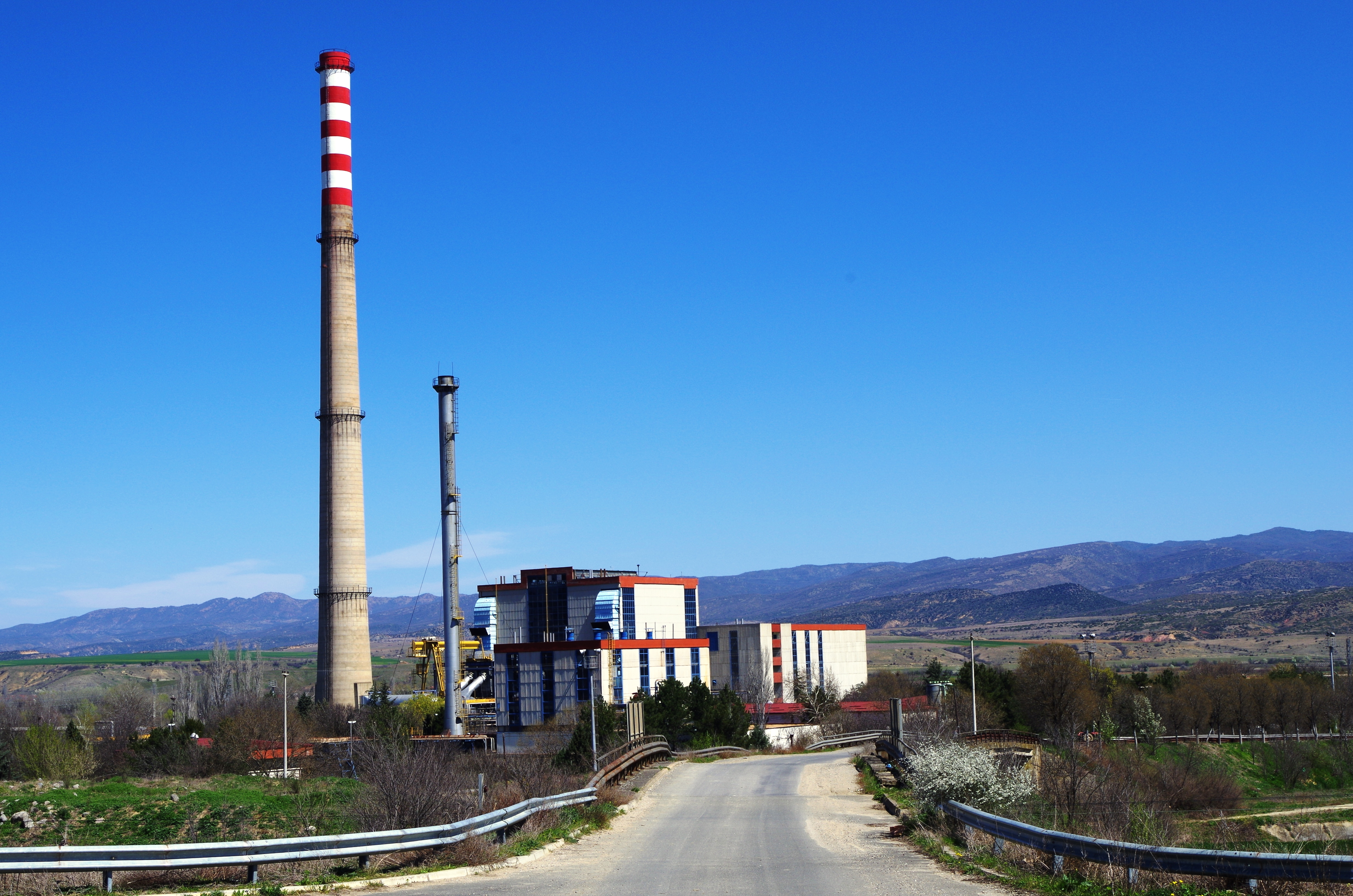 Negotino power plant